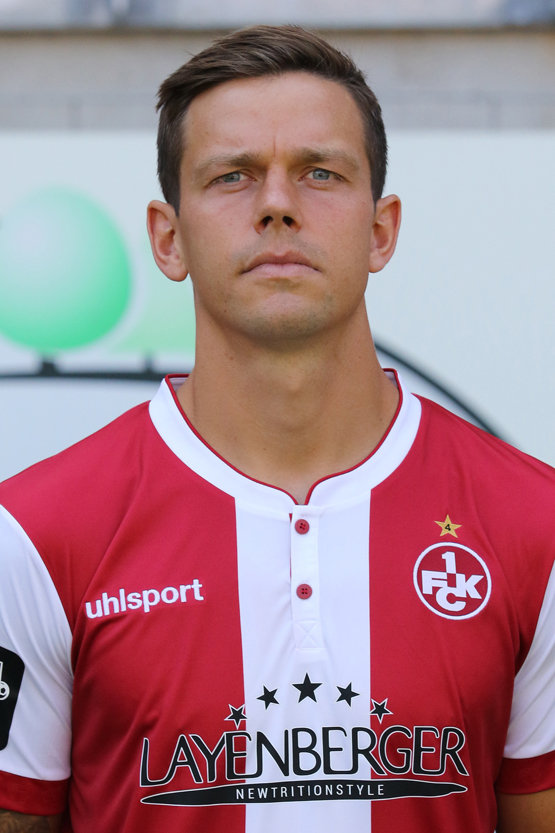 Mads Albaek (Nr. 7)